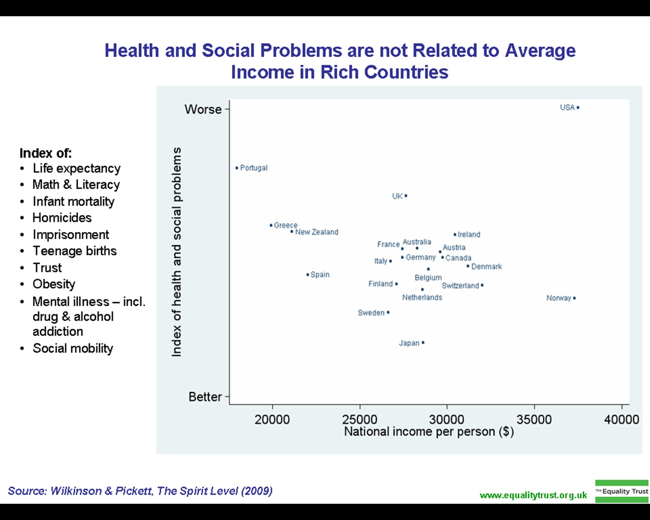 The Spirit Level: Why More Equal Societies Almost Always Do Better.